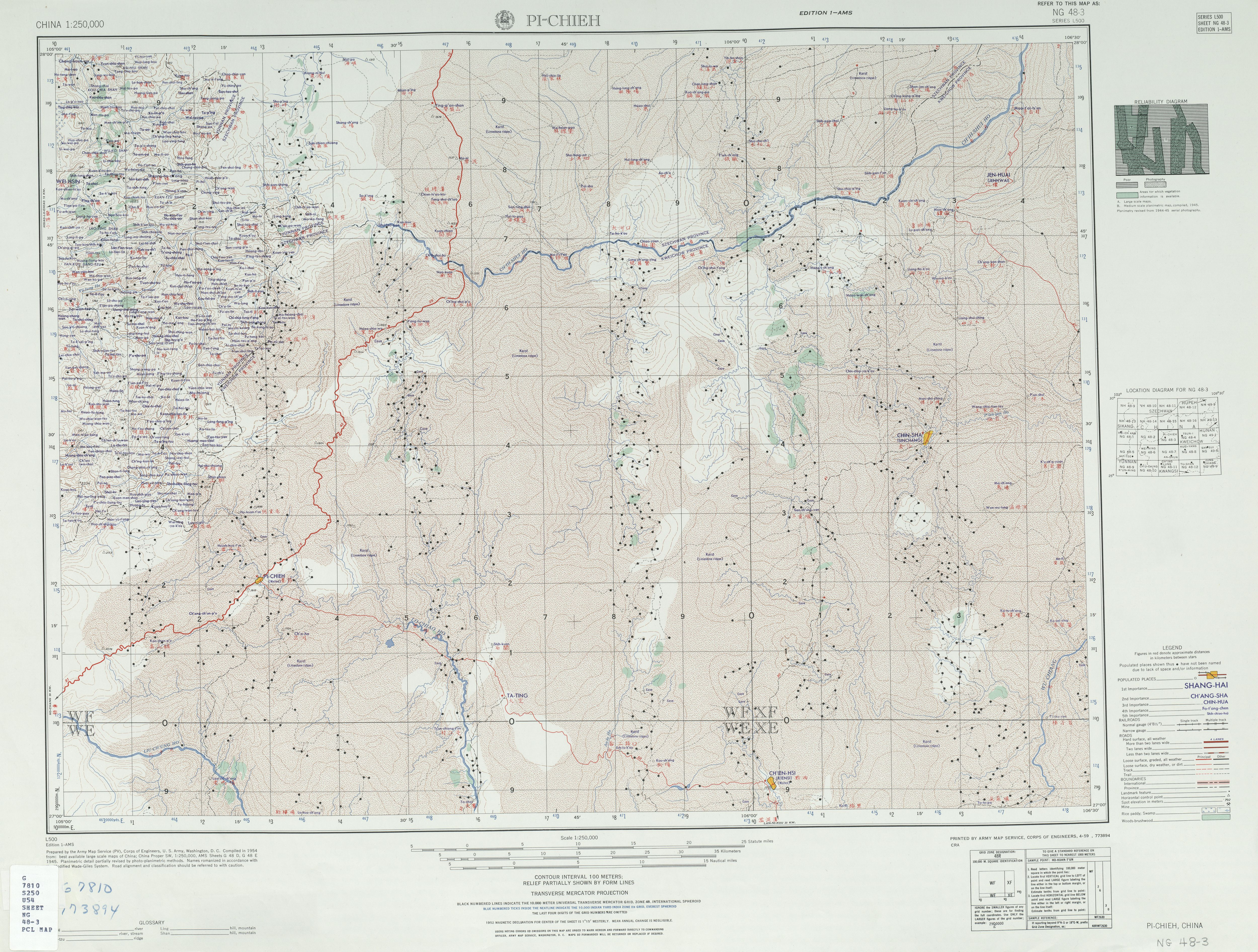 China AMS Topographic Maps